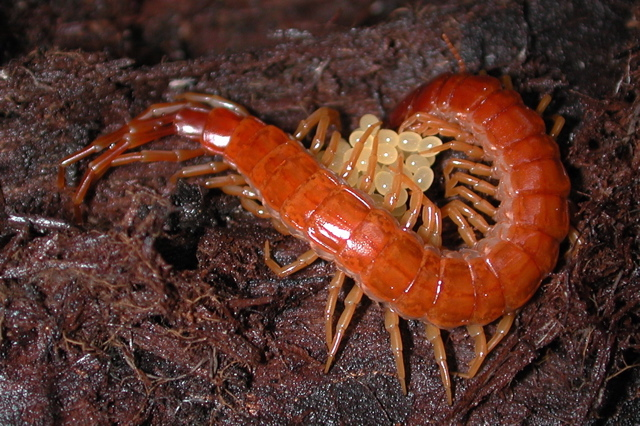 Female centipede, guarding her eggs, from northern California.